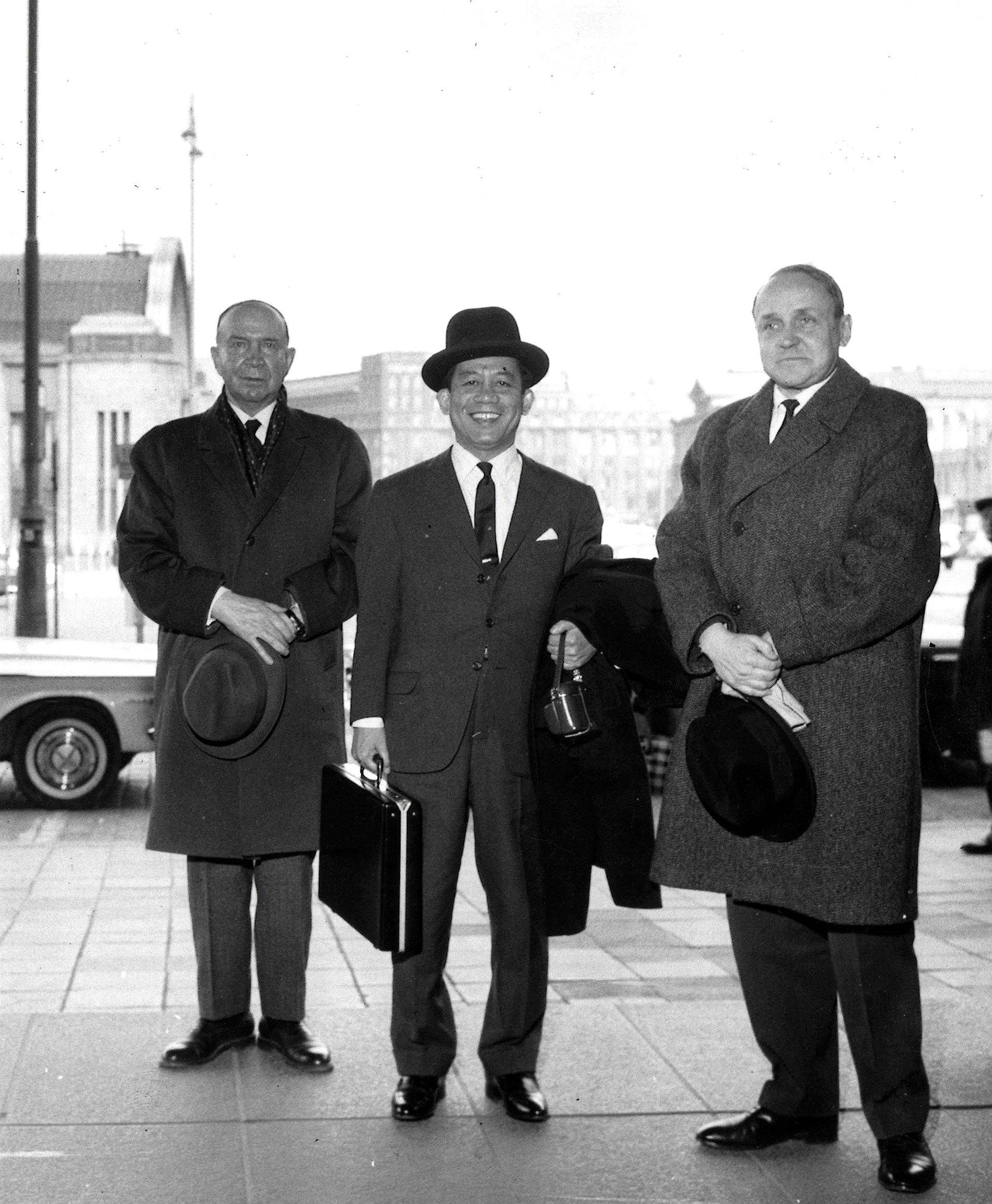 Photograph of the Philippines ambassador for Finland, Melchor P. Aquino, with Paavo Talvela (left) and Olli Auero (right), in front of Hotelli Vaakuna, Helsinki.